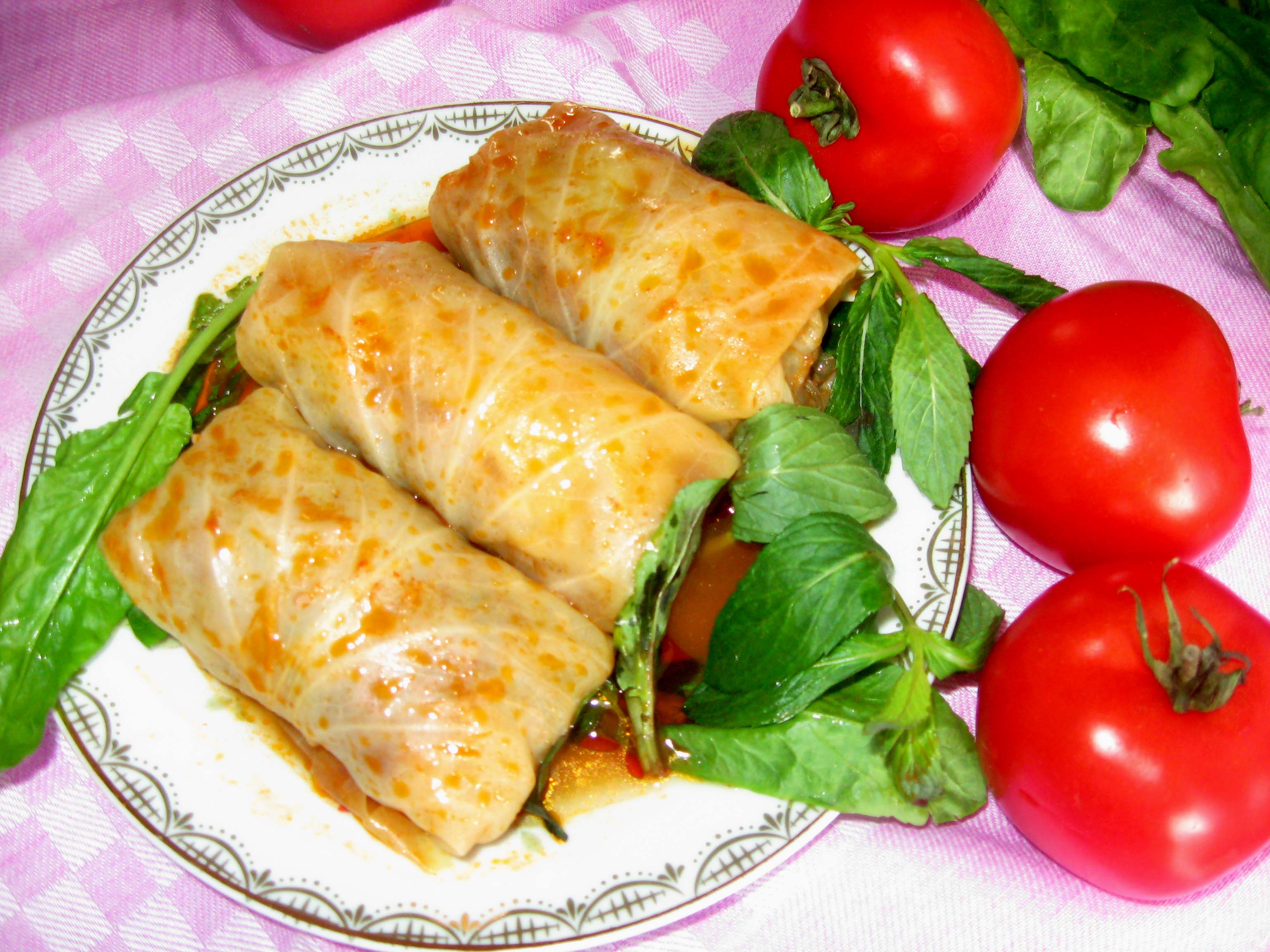 Own work A cabbage dolma. Azerbaijan national a food, prepares from cabbage.